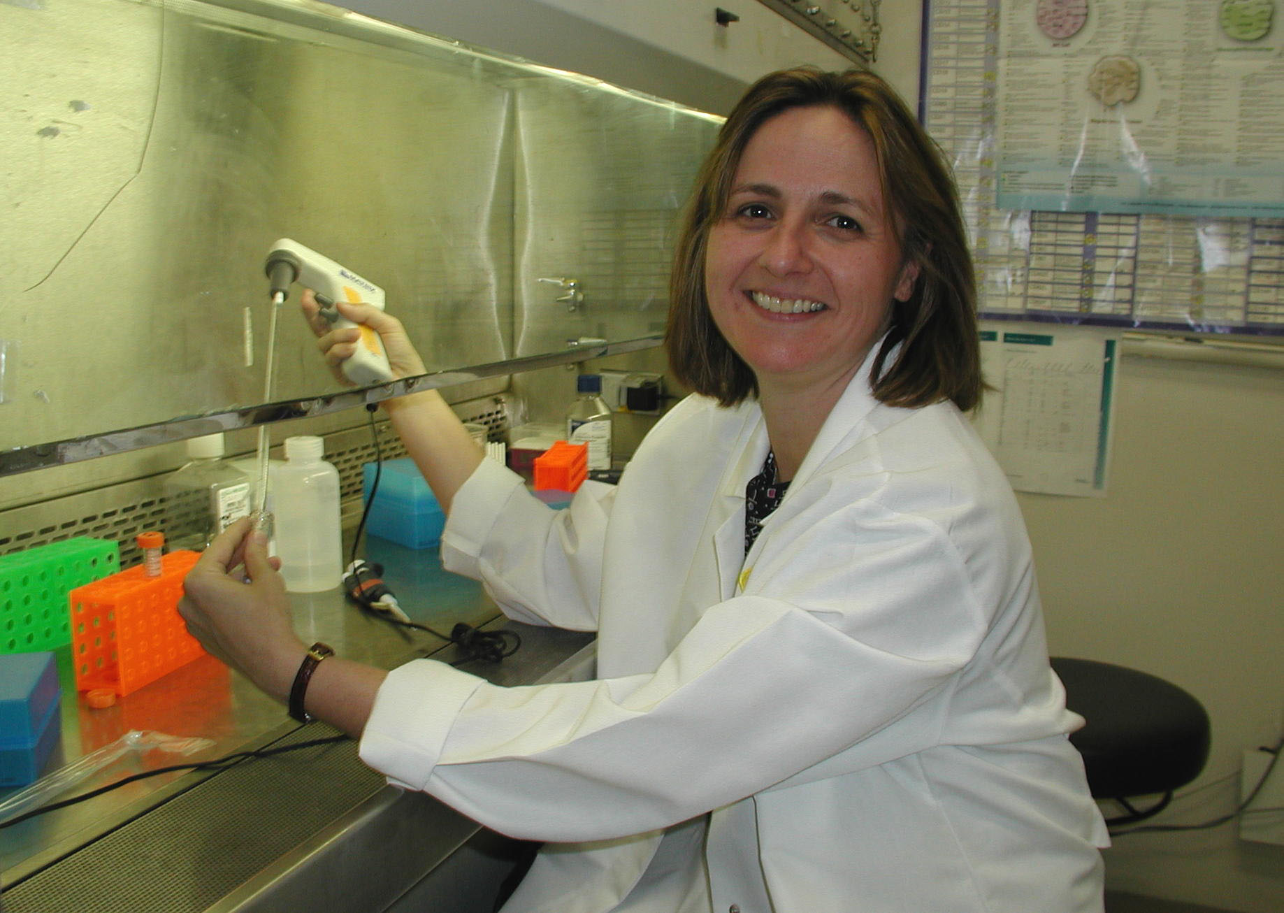 Title Mackall, Crystal Description Head, Immunology Section, Branch Chief, Pediatric Oncology Branch, Center for Cancer Research, National Cancer Institute. Topics/Categories National Cancer Institute, People Type Color, Photo Source National Cancer Institute